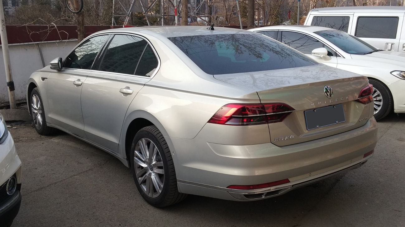 Volkswagen Phideon photographed in Shenyang, Liaoning province, China.